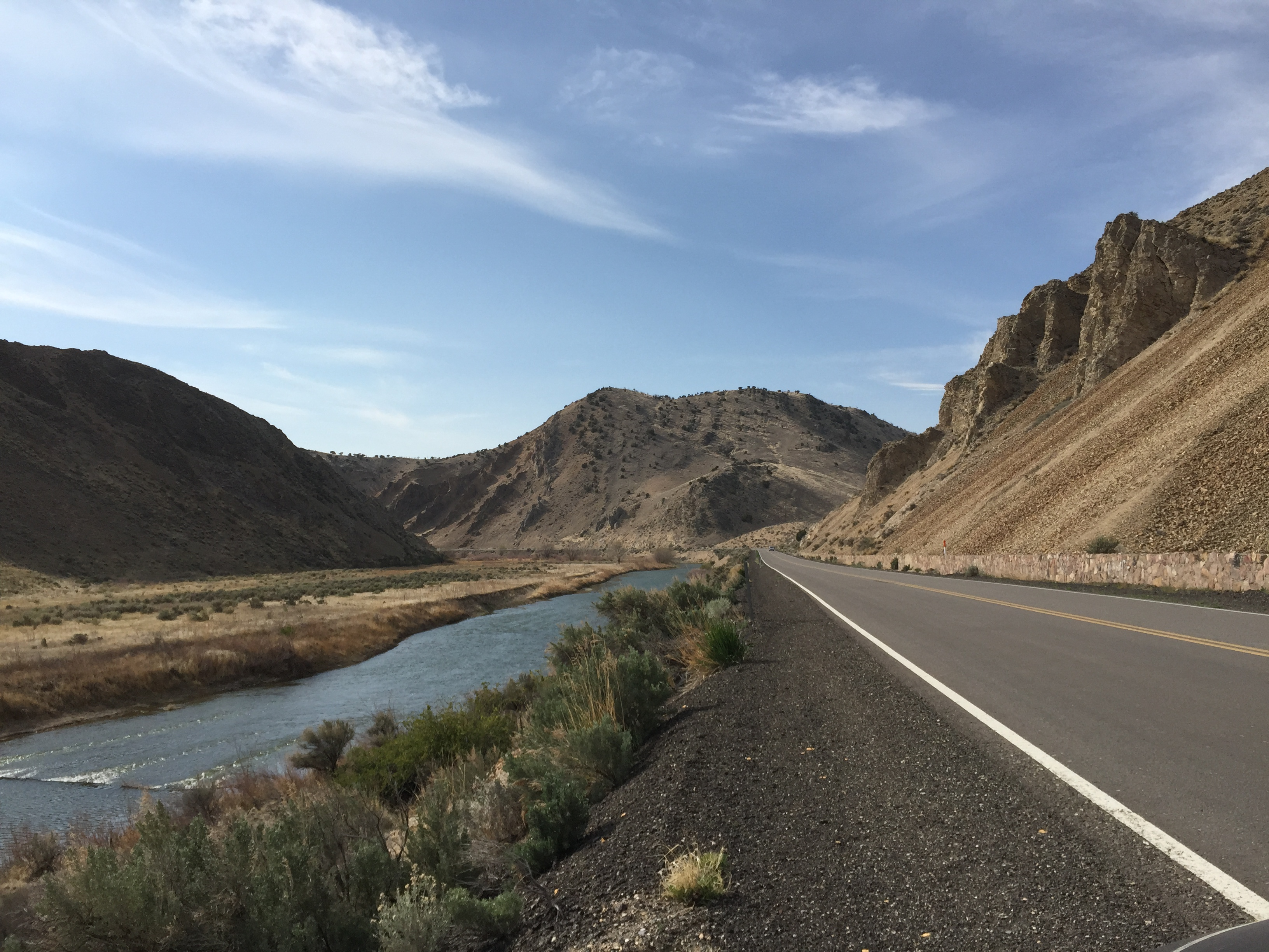 View west down the Humboldt River in the Carlin Canyon from old U.S. Route 40 in Elko County, Nevada